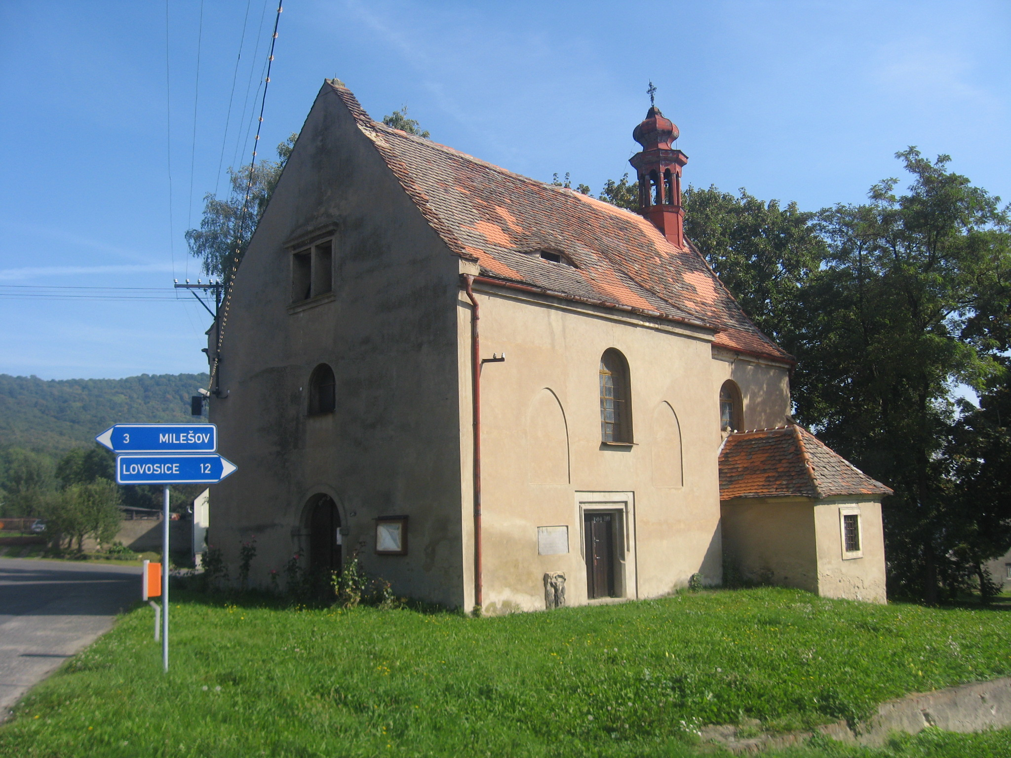 Church of St. Nicholas in Medvědice (Litoměřice District)